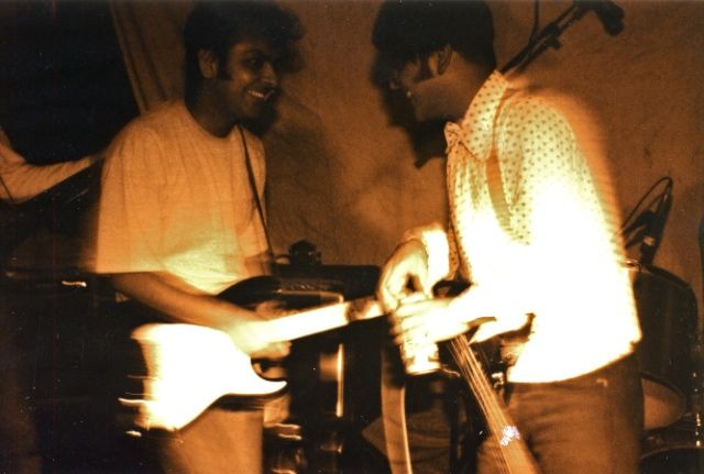 Cornershop, circa 1993